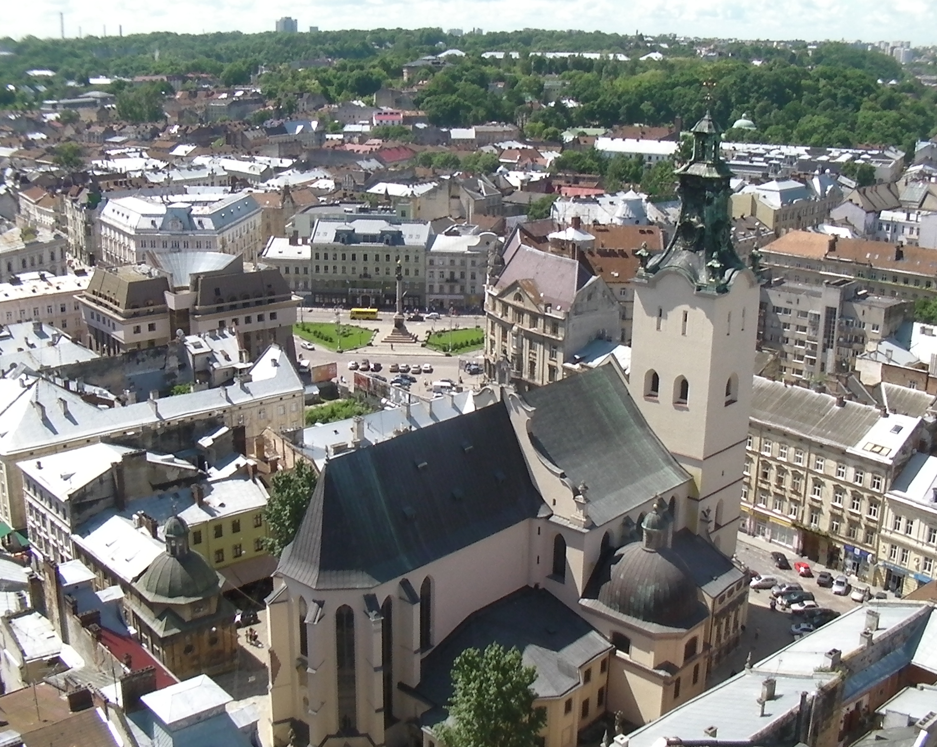 view southwest over the Latin Cathedral and, further on, the Adam Mickiewicz column, in Lviv (Львів) Ukraine, from the Town Hall tower in the Market Square (Площа Ринок). The small domed structure at the lower left is the Chapel of the Boim family (Каплиця Боїмів).